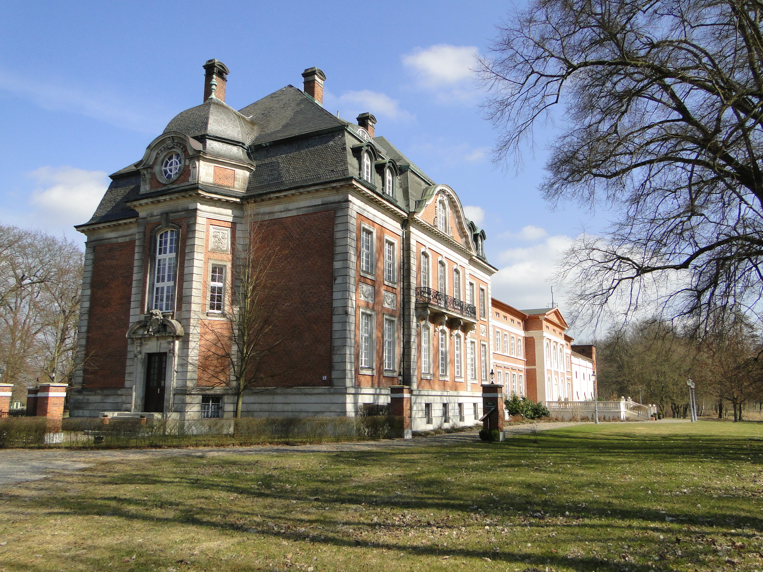 Manor house (Castle) in Karow, district Parchim, Mecklenburg-Vorpommern, Germany